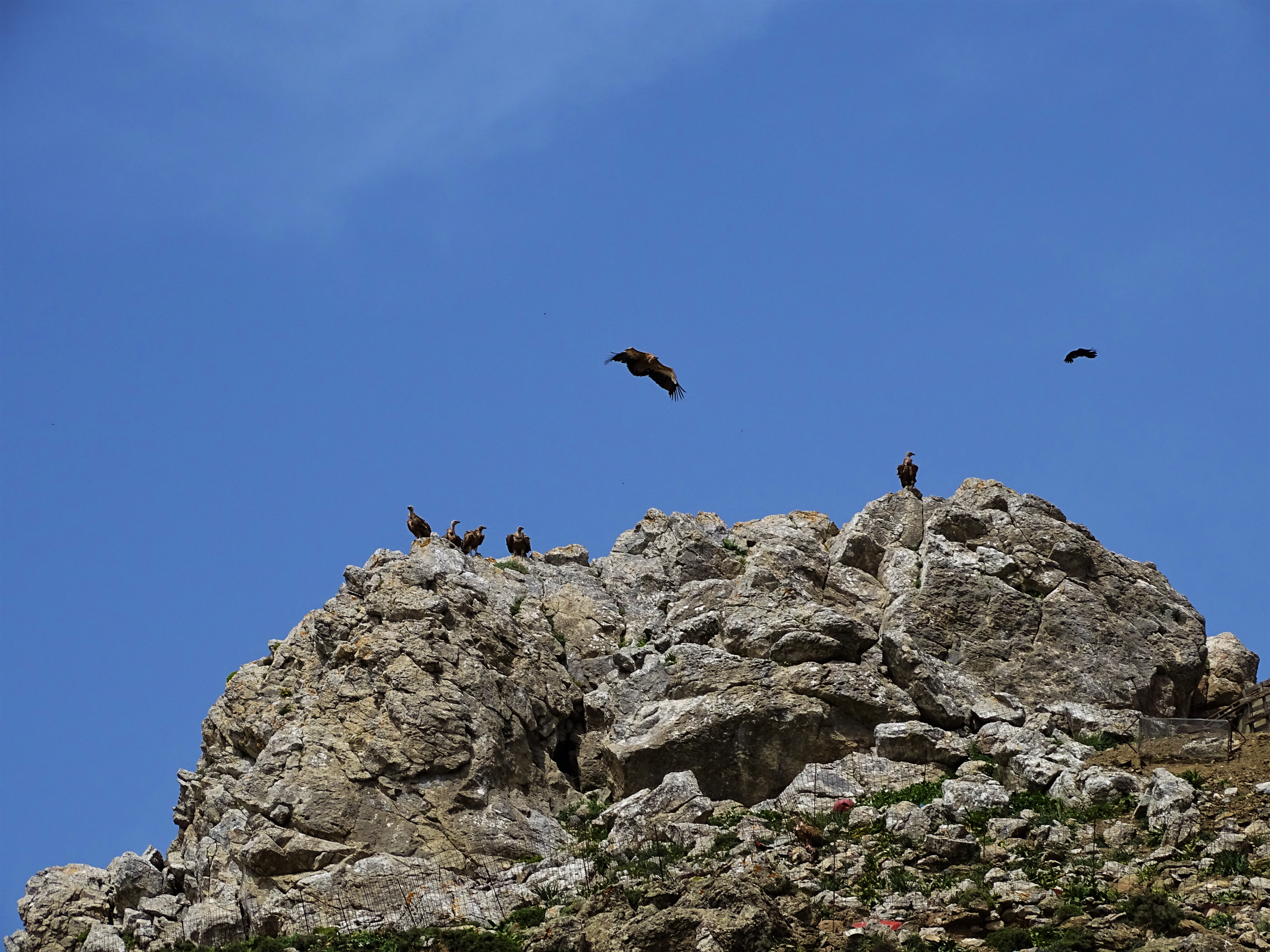 Gypaetous Birds Blue Sky This is a photography of Natura 2000 protected area with ID GR4310008